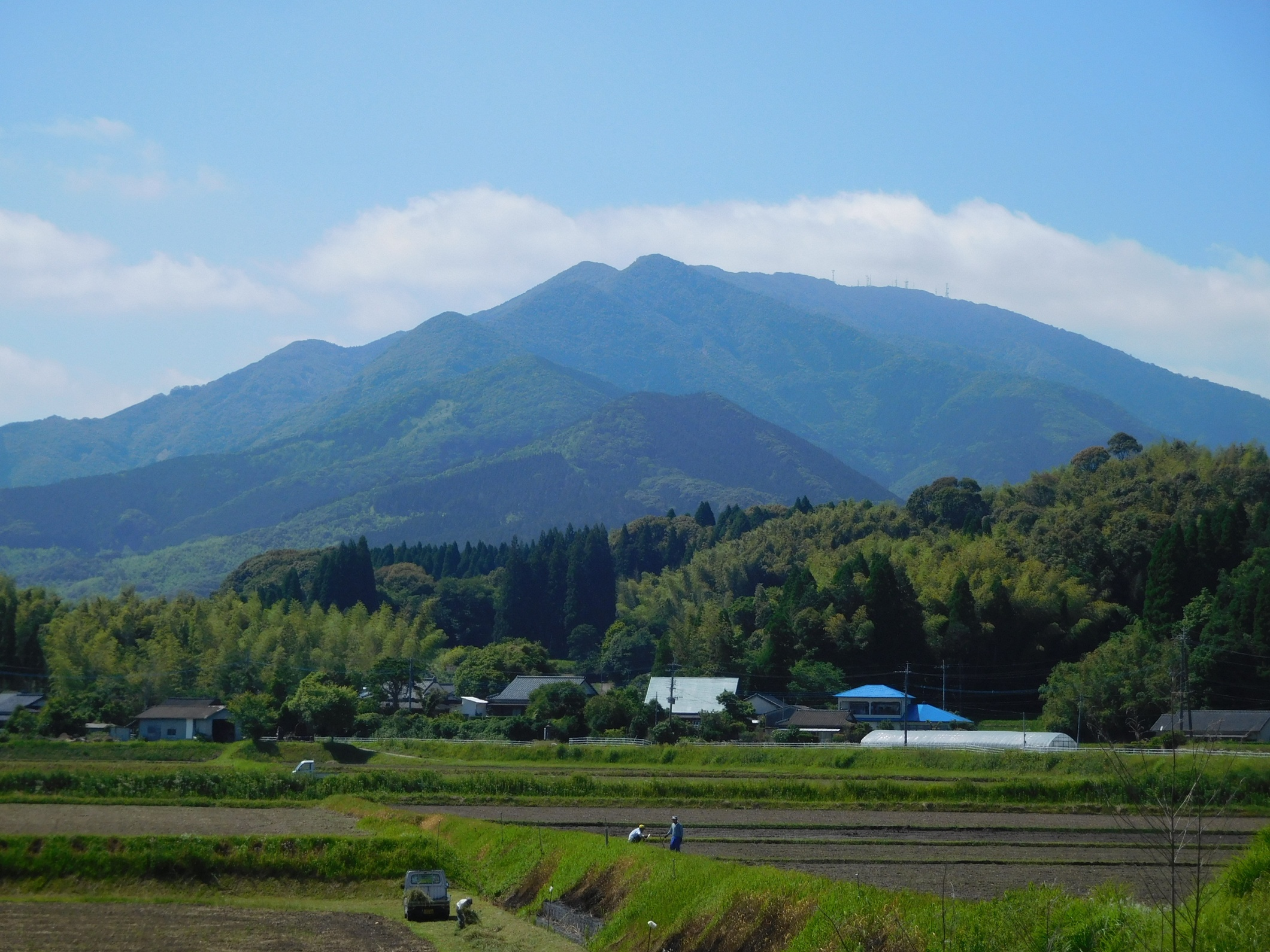 Mt.Shibisan - Izumi Mountains (Satsuma Town, Kagoshima Prefecture, Japan)